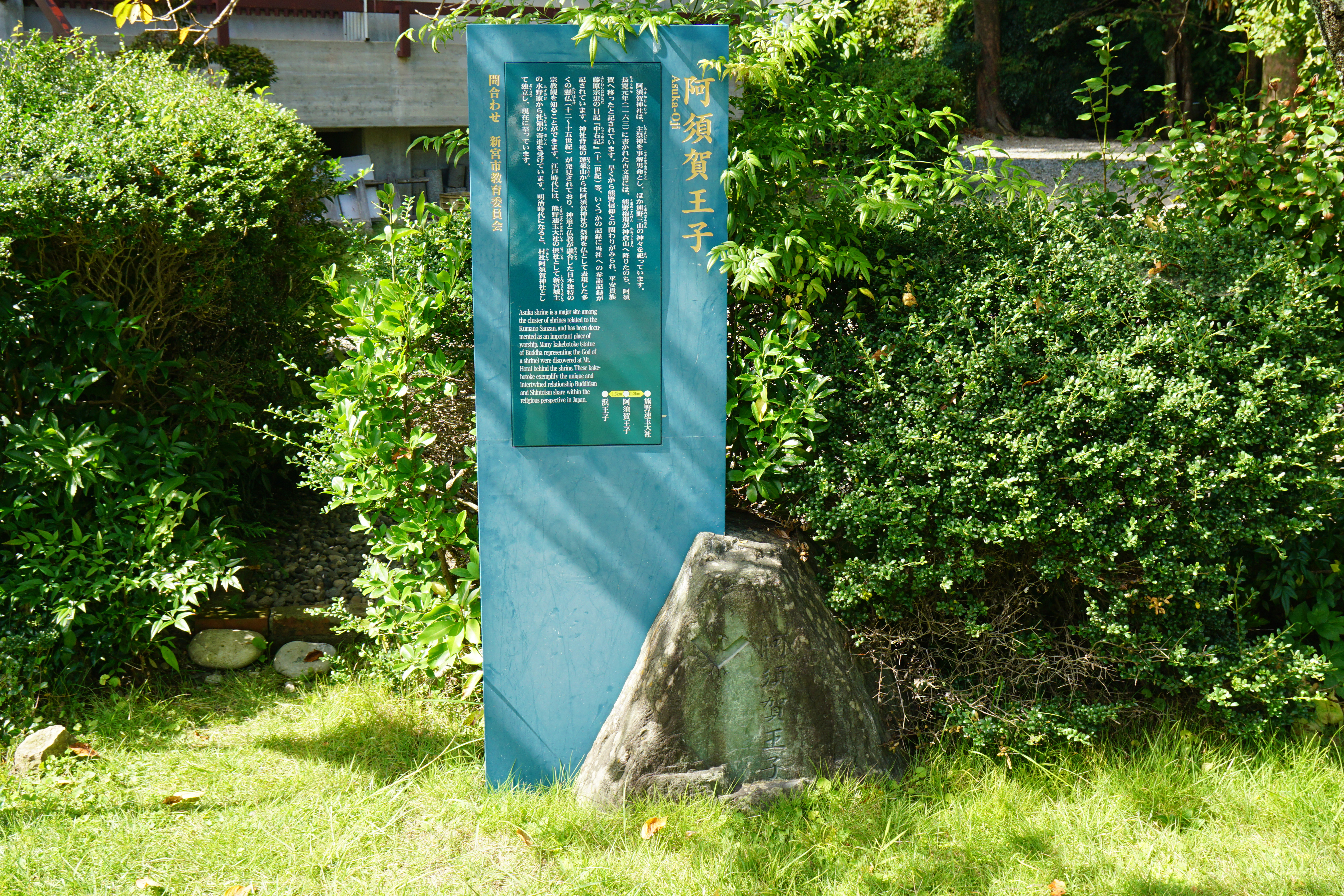 Asuka-jinja in Shingū, Wakayama prefecture, Japan